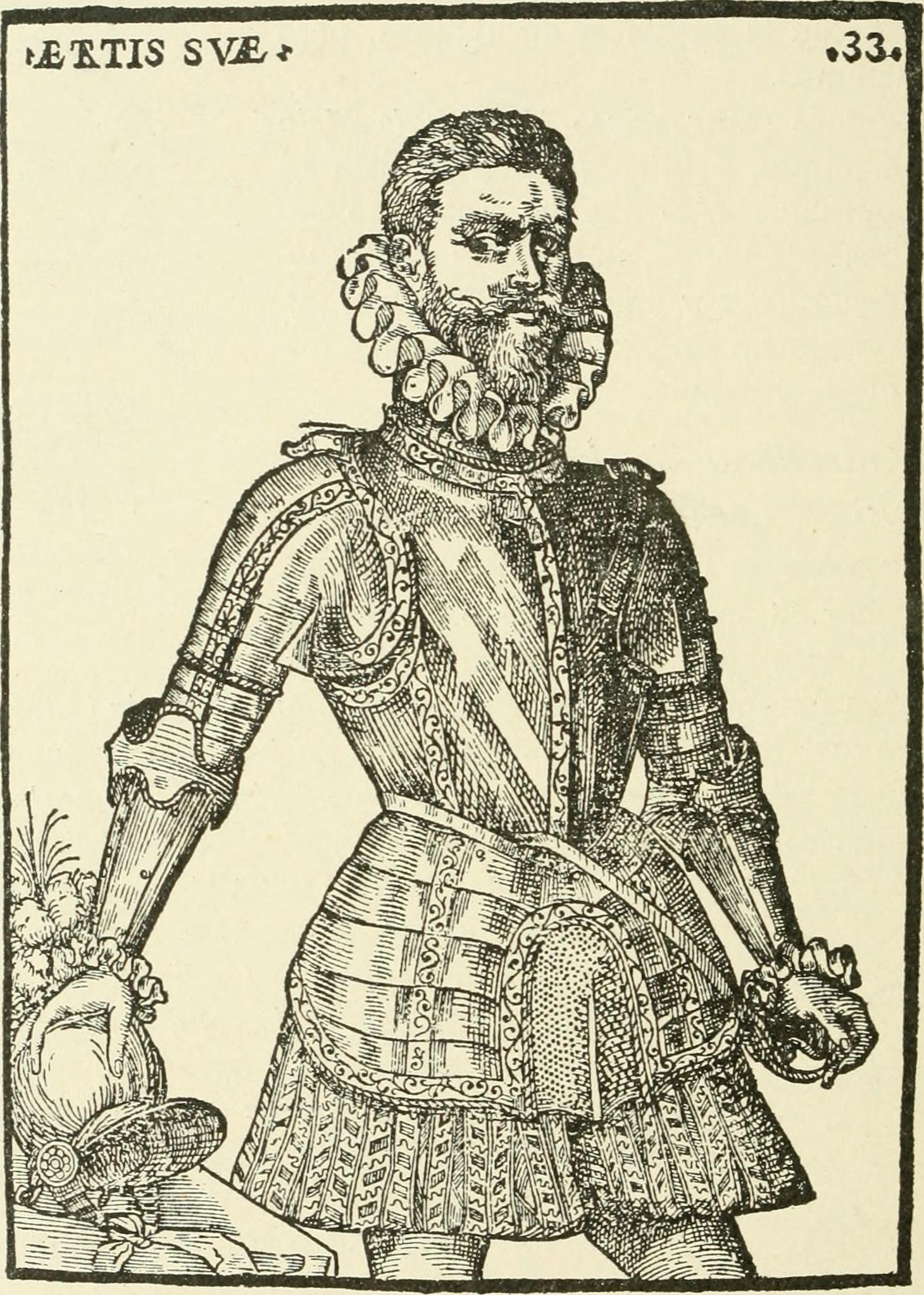 Title: La literatura española; resumen de historia crítica Year: 1916 (1910s) Authors: Salcedo y Ruiz, Angel, 1859-1921 Subjects: Spanish literature -- History and criticism Publisher: Madrid, Calleja Text Appearing Before Image: (1) Primera edición, Barcelona, 1623. (2) Muntaner nació en 1270; su Crónica fué impresa en 1658. (3) La primera edición apareció con el seudónimo de Clemente Libertino. 477 SALCEDO. - LA LITERATURA ESPAÑOLA - TOMO II LIBROS DEL SIGLO XVI Text Appearing After Image: Diego de Álava y Víamont.Su retrato, de la obra El perfecto Capitán. — Madrid, 1590. eos, no llegó a las exageraciones de Moneada, y sin aeudir, eomo Argen-sola, a la invención novelesca, compuso un relato rigurosamente históricoque se lee con el encanto de un poema. 478 XXI. - HISTORIADORES Y DIDÁCTICOS (Continuación) D I M ALOCO 1 L 1 T A R. (^ompu.ejlo por el Maejlredecapo Fran cijco de Valdes: En el qual fe ttata del oficio del Sargentonuijor. Dirigido a don Fadrique AluarezdeTo ledojComendador mayor deCalatraoa» y General deiainíjnteria Eípañoia de*Flandes. 185. Tratadistas militares: Eguiluz, Valdés, Escalante,Searion de Pavía, Rojas, Isaba, Alaba, Lechuga, Jiménez deUrrea. — El Siglo de oro de las letras castellanas lo fué también de lasarmas españolas. No es de maravillar la abundancia de LIBROS DEL SIGLO XVI tratadistas militares, muchosde los cuales tienen, ade-más de sus condiciones pro-fesionales, literarias de su-bido precio. El capitán Martin deEg